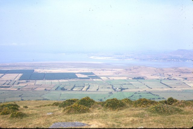 View from Moel Goedog. View a little north of east over Morfa Harlech towards Morfa Bychan and Criccieth